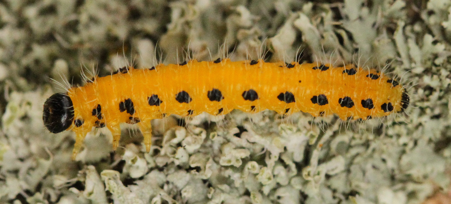 Cladius grandis, Deeside, North Wales, Oct 2013